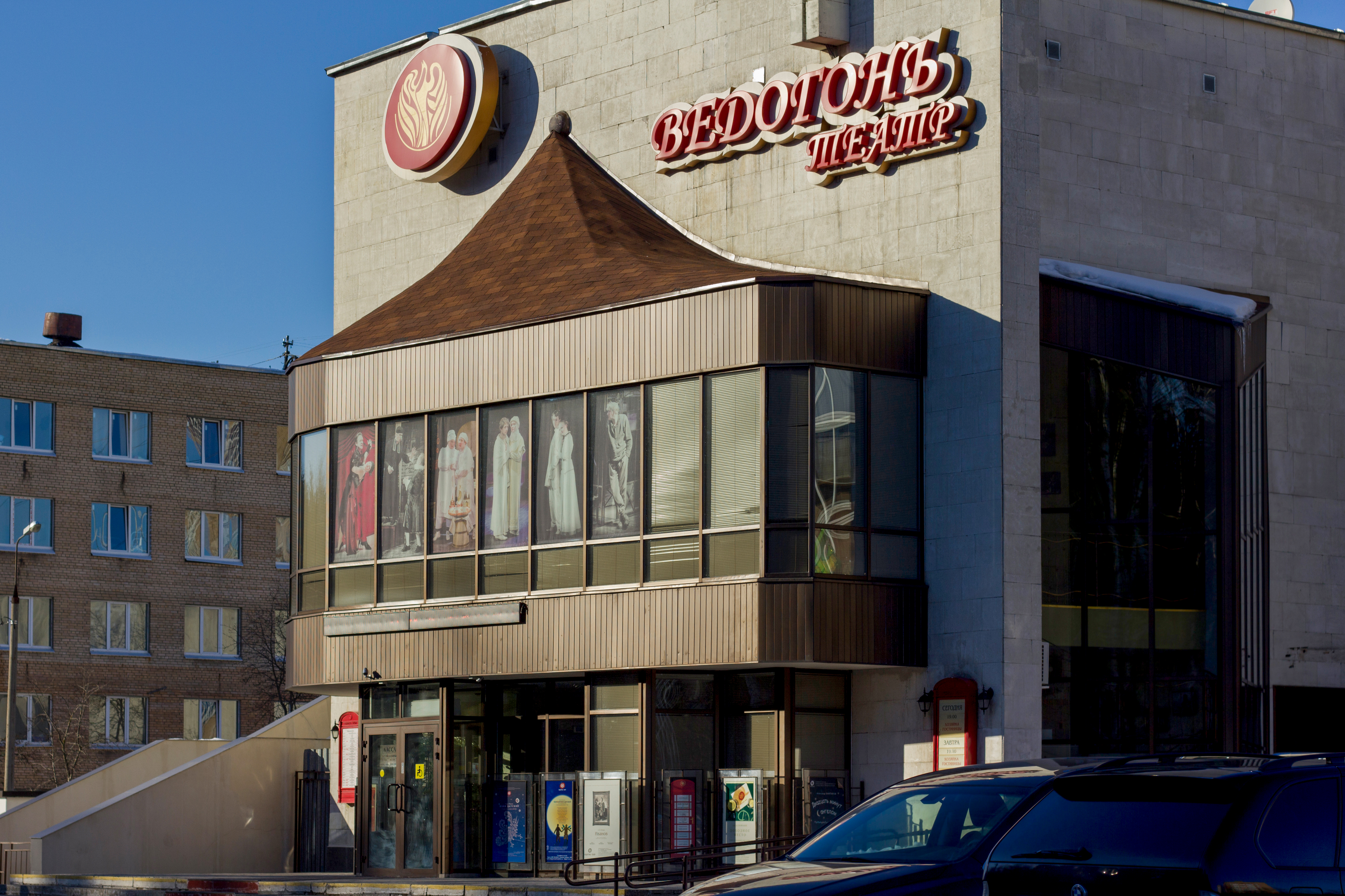 Theatre Vedogon in Zelenograd